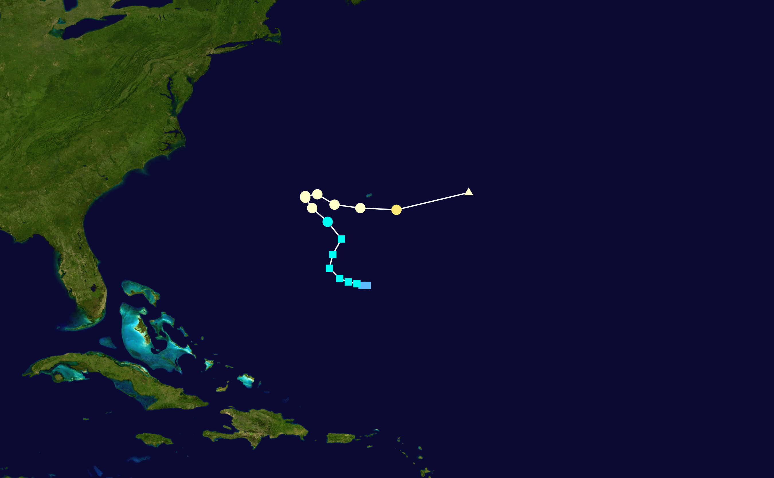 Track map of Hurricane Grace of the 1991 Atlantic hurricane season. The points show the location of the storm at 6-hour intervals. The colour represents the storm's maximum sustained wind speeds as classified in the Saffir–Simpson scale (see below), and the shape of the data points represent the nature of the storm, according to the legend below. Saffir–Simpson scale Tropical depression≤38 mph≤62 km/h Category 3111–129 mph178–208 km/h Tropical storm39–73 mph63–118 km/h Category 4130–156 mph209–251 km/h Category 174–95 mph119–153 km/h Category 5≥157 mph≥252 km/h Category 296–110 mph154–177 km/h Unknown Storm type Tropical cyclone Subtropical cyclone Extratropical cyclone / Remnant low / Tropical disturbance / Monsoon depression